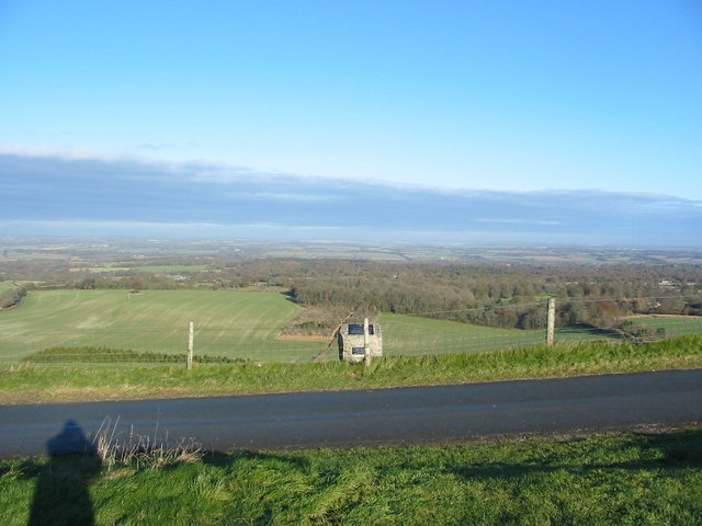 View over Southern Berkshire from Walbury Hill Car Park.